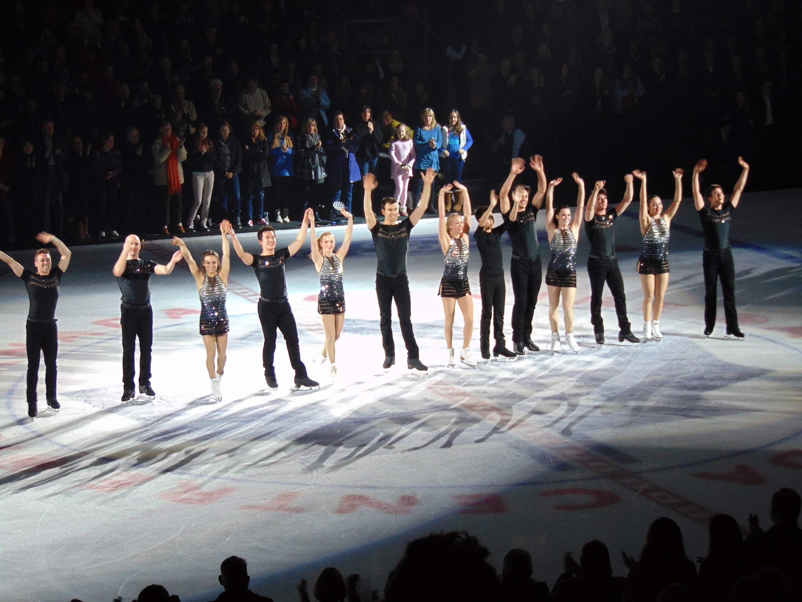 Stars on Ice: Patrick Chan Tessa Virtue & Scott Moir Kurt Browning Joannie Rochette Jeffrey Buttle Meagan Duhamel & Eric Radford Kaetlyn Osmond Kaitlyn Weaver & Andrew Poje Shawn Sawyer